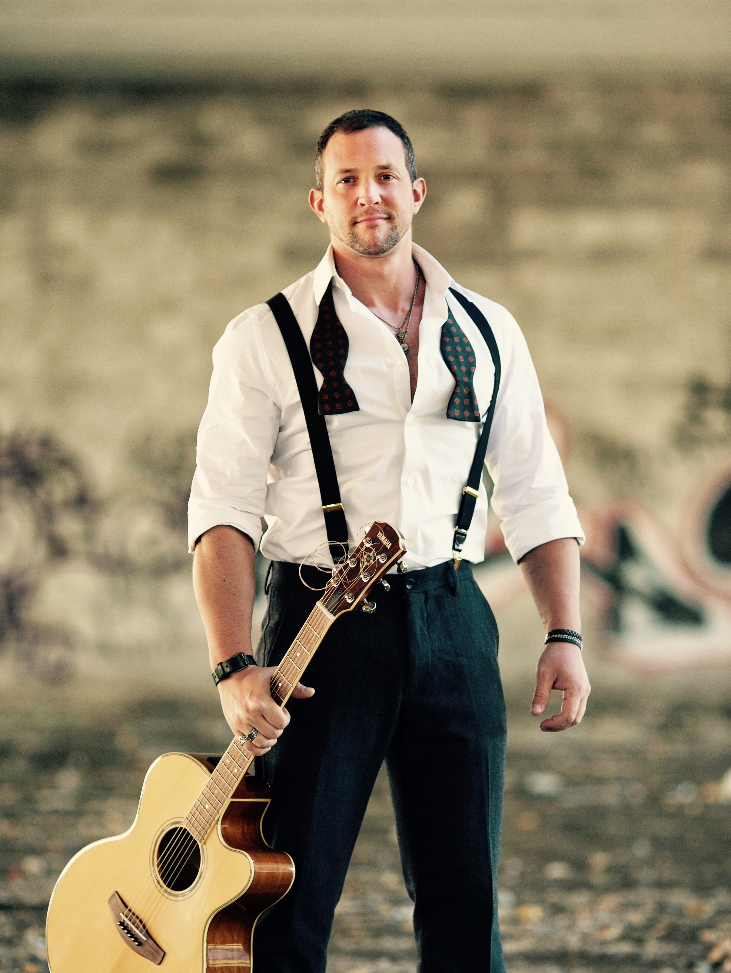 Photography by Ryan Bakerink, used with permission